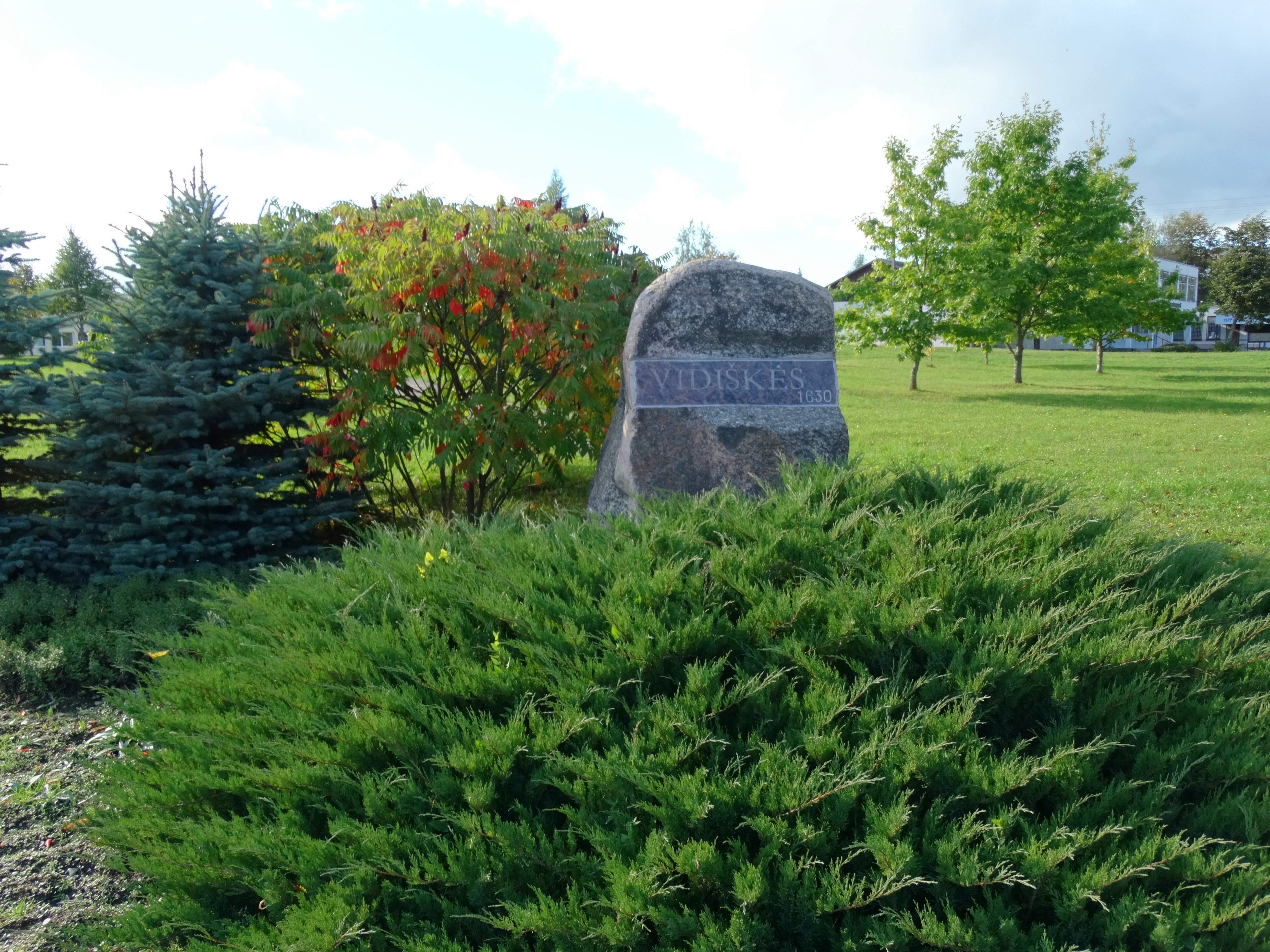 Inscribed stone, Vidiškės, Ignalina district, Lithuania